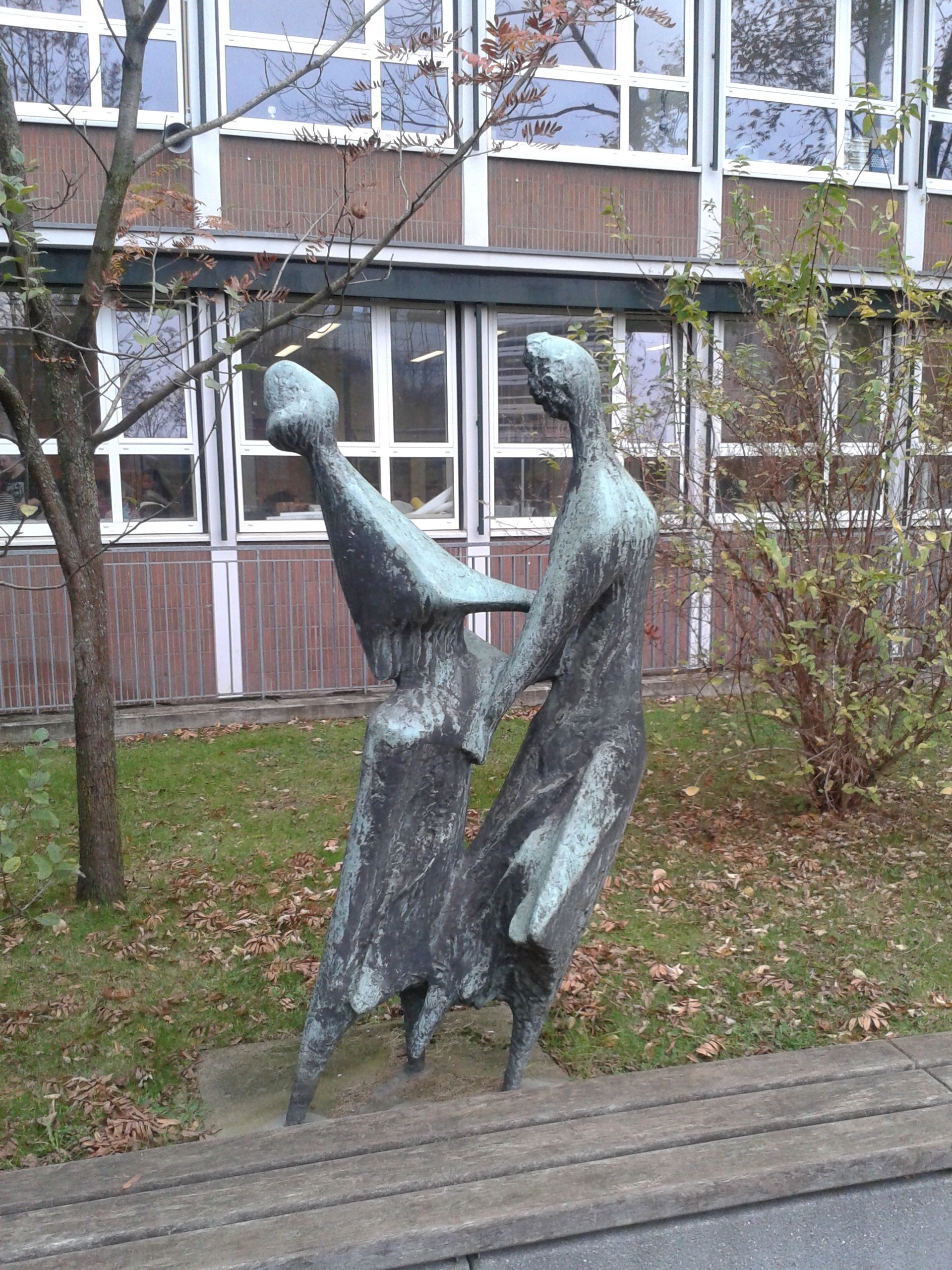 bronze sculpture of Maria von Ohlen, situated at Humboldt-Gymnasium, Düsseldorf (Germany), build 1959